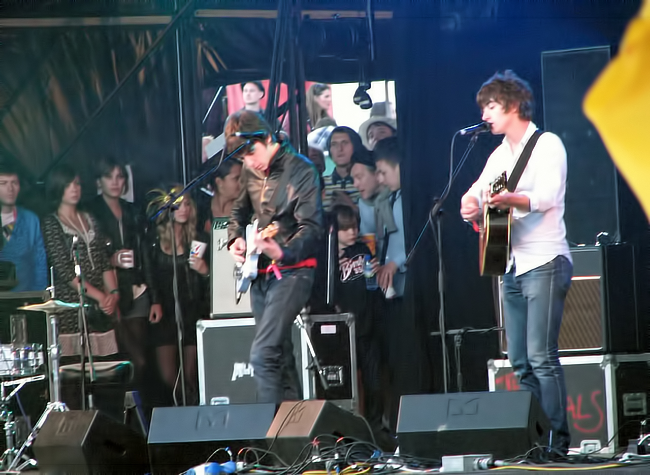 The Last Shadow Puppets at Glastonbury Festival, 2008.